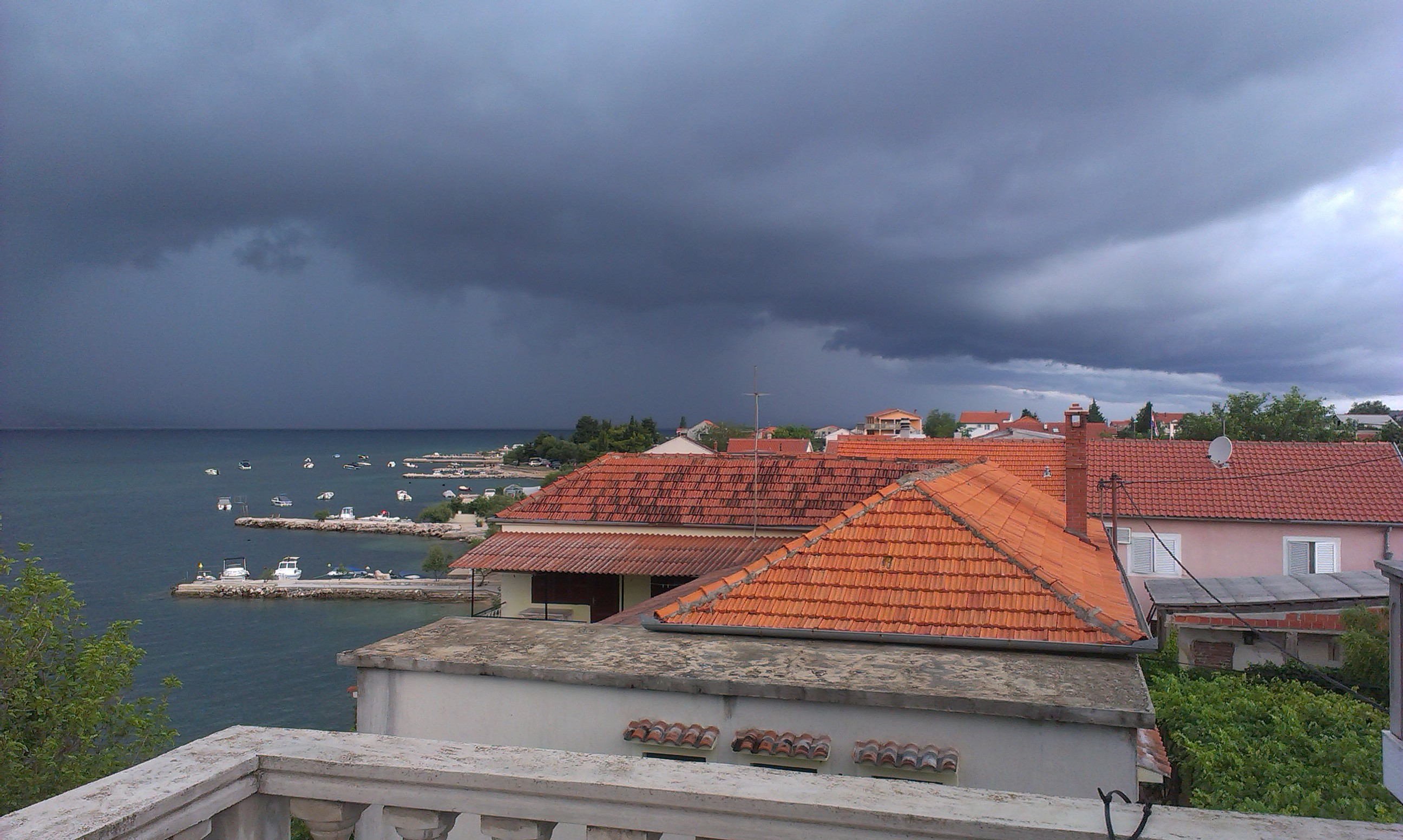 STRECHY PRED BÚRKOU - THE ROOFS BEFORE THE STORM